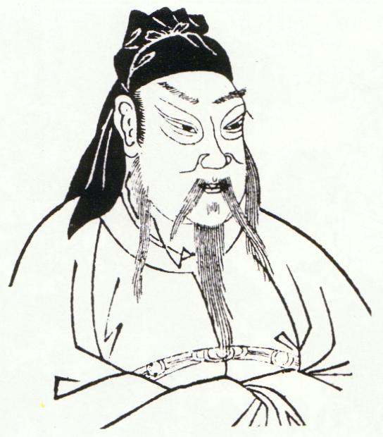 Guan Yu.